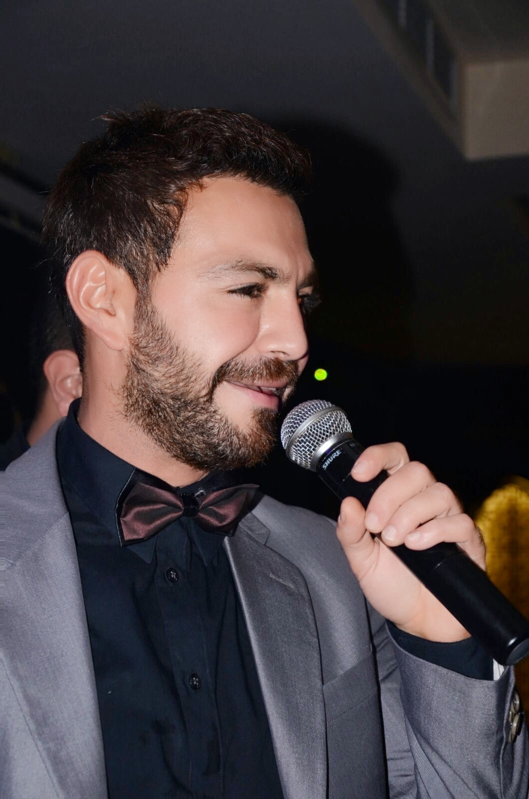 The Lebanese singer Mohamed Marawan Baasery known as Iwan.